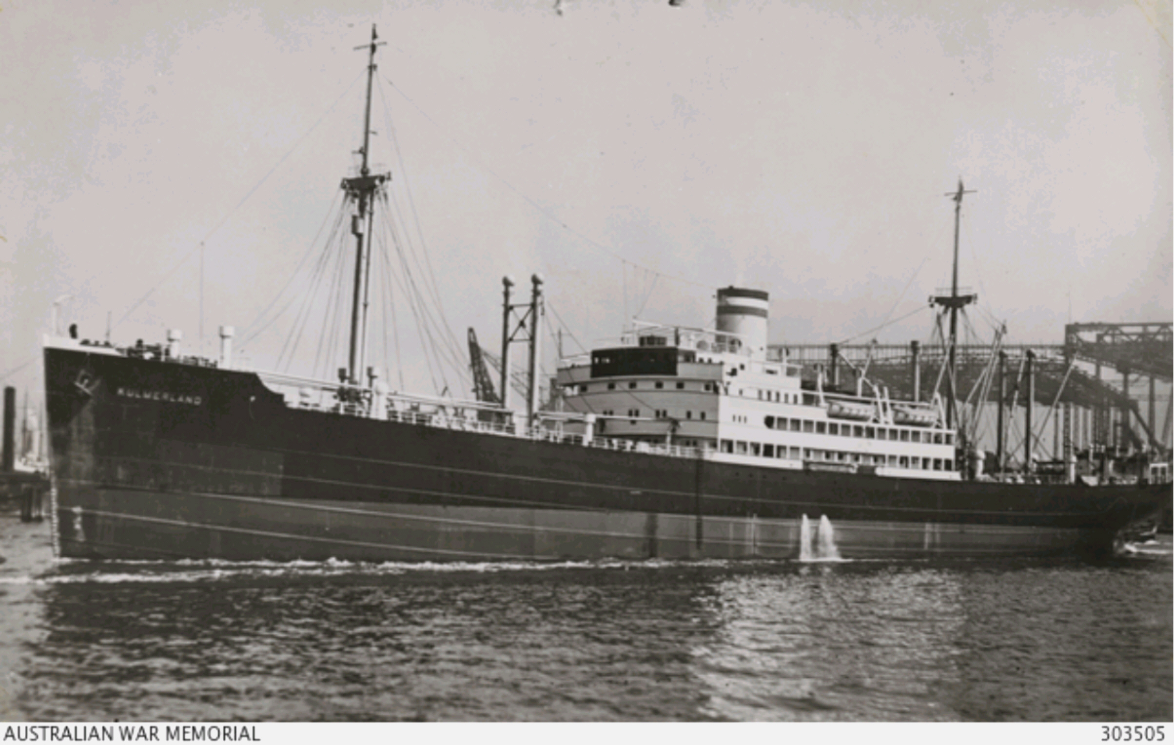 Hamburg, Germany, PORT BOW VIEW OF THE GERMAN CARGO VESSEL KULMERLAND WHICH ACTED AS A SUPPLY SHIP FOR THE GERMAN AUXILIARY CRUISERS KOMET AND ORION IN THE PACIFIC, ACCOMPANYING THEM ON THE RAID ON NAURU IN 1940-12. IN 1941-10 SHE SUPPORTED THE AUXILIARY CRUISER KORMORAN IN THE INDIAN OCEAN. (NAVAL HISTORICAL COLLECTION)